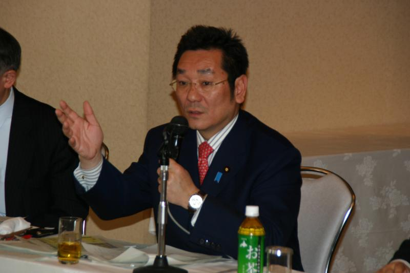 Kenko Matsuki, Parliamentary Secretary of Agriculture, Forestry and Fisheries, attended the public meeting at the Kyosai Building in Sapporo City, Hokkaidō on January 14, 2011. (For terms of use, see 北海道農政事務所/リンクについて・著作権.)